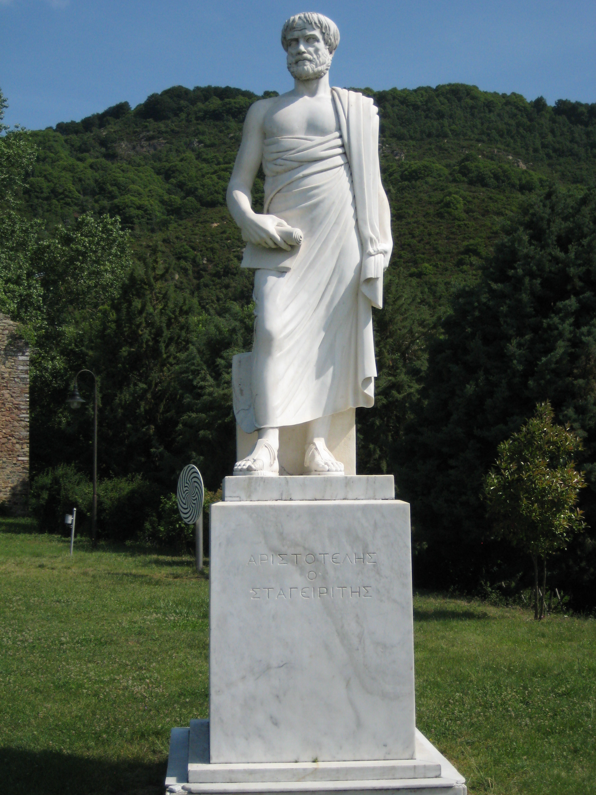 Statue of Aristotle